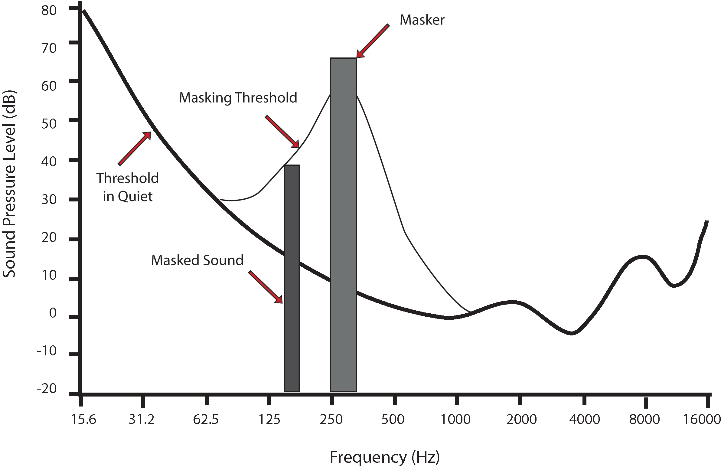 Audio Mask Graph